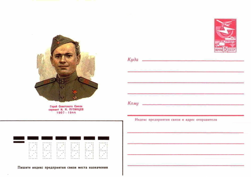 Stamped envelope of the USSR featuring Hero of the Soviet Union sergeant Ivan Nikandrovich Putintsev (1907-1944)